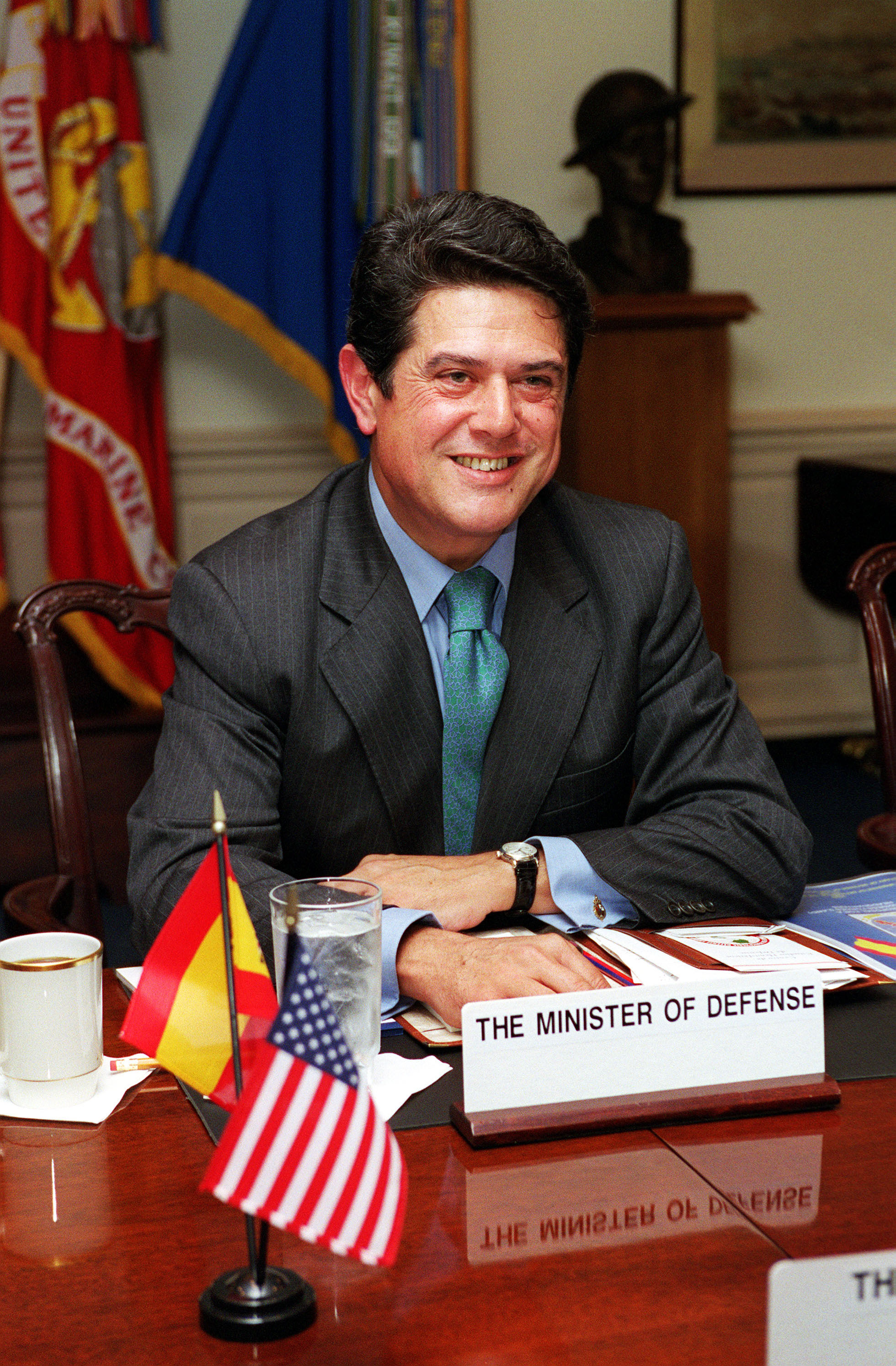 Minister of Defense Federico Trillo meets with Secretary of Defense Donald H. Rumsfeld in the Pentagon on April 23, 2001. Trillo and Rumsfeld are meeting to discuss a range of regional policy and security issues of interest to both nations.